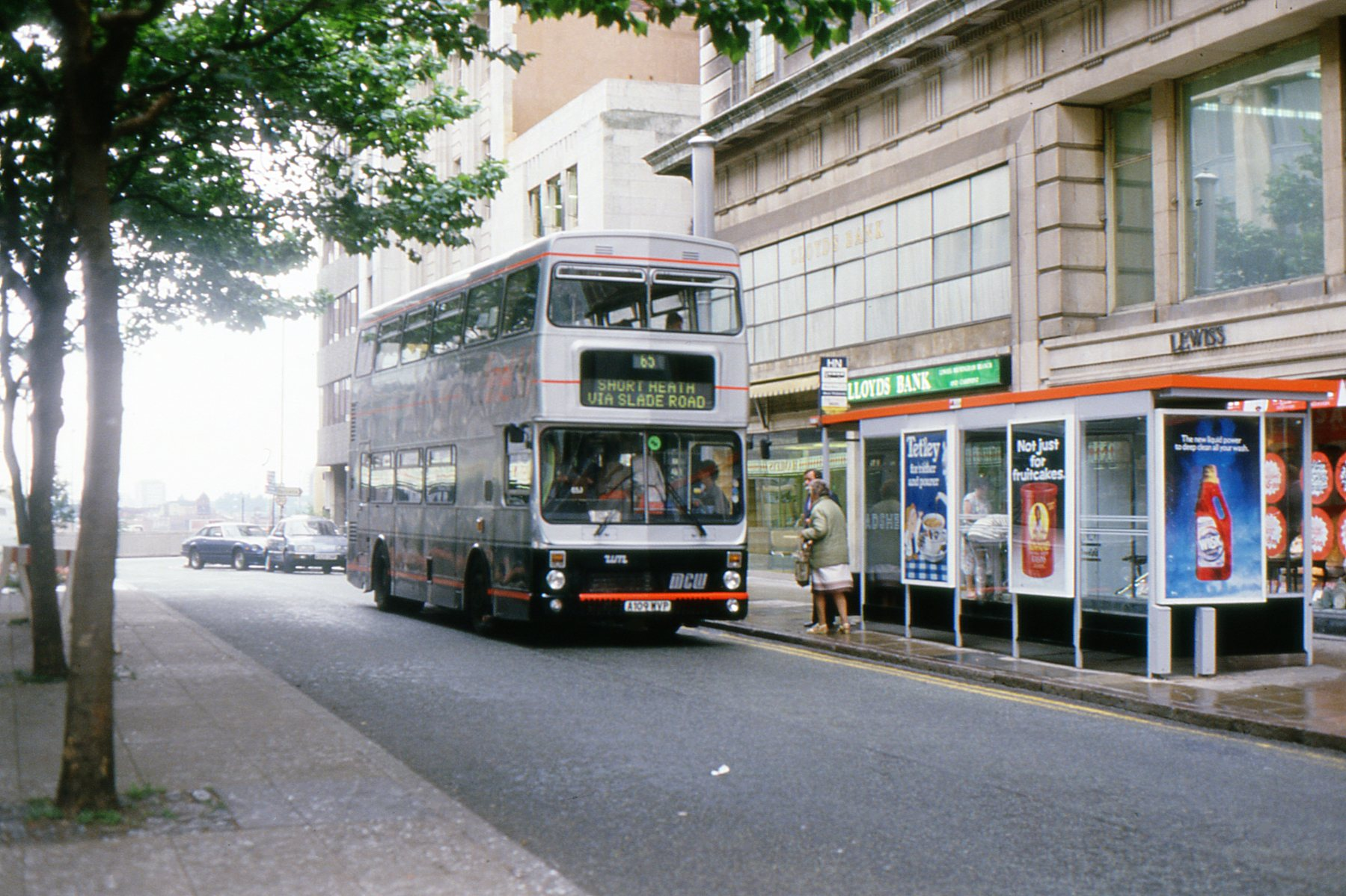 Britain's first guided bus lane was in Birmingham, on a short stretch of service 65. This black and silver livery was worn by most of the vehicles on the service. Bus number 8109 loads up in Upper Bull Street in the city centre, before heading out of town.